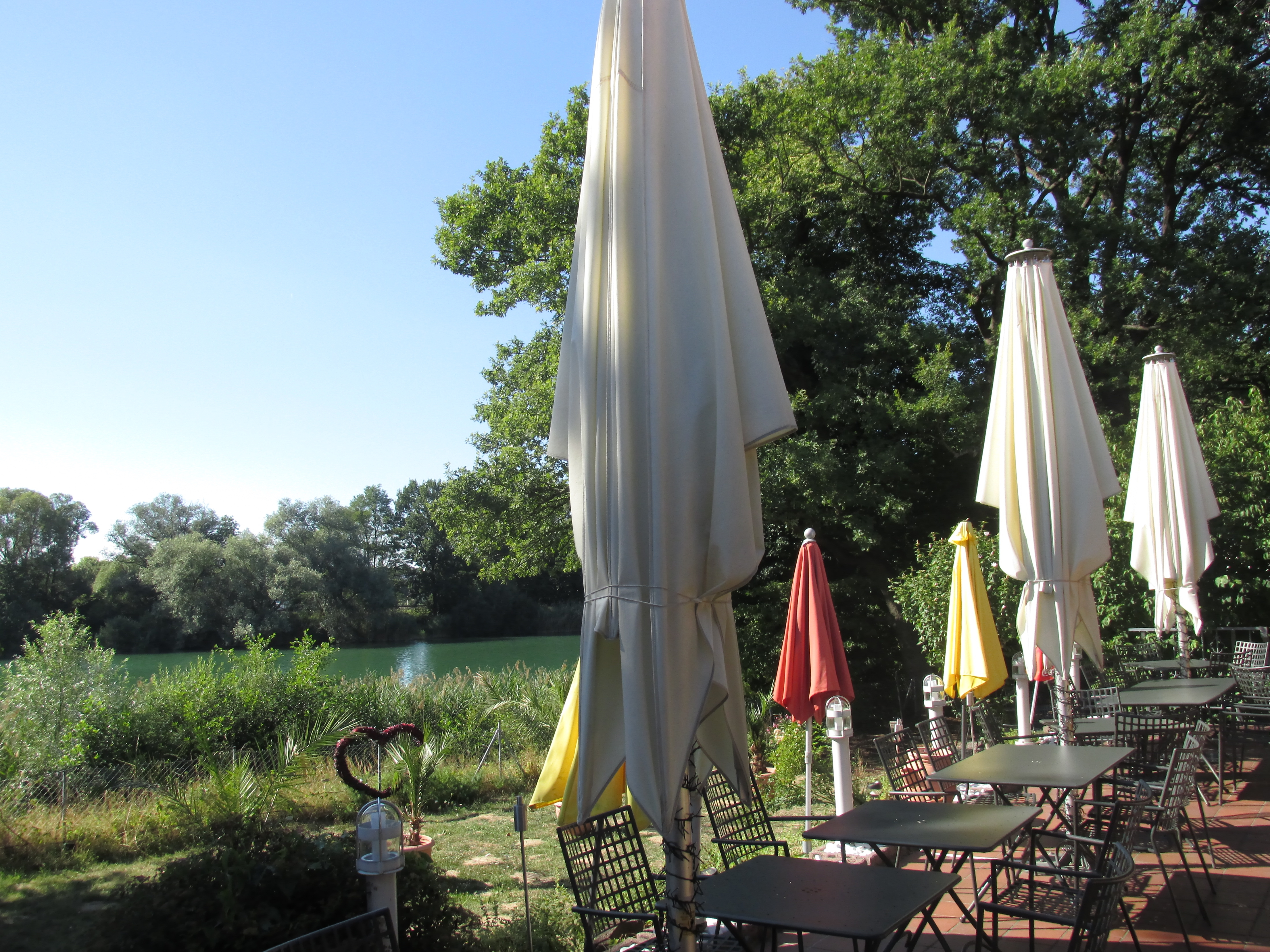 Buchtzigsee lake, Bruchhausen, Ettlingen, Germany